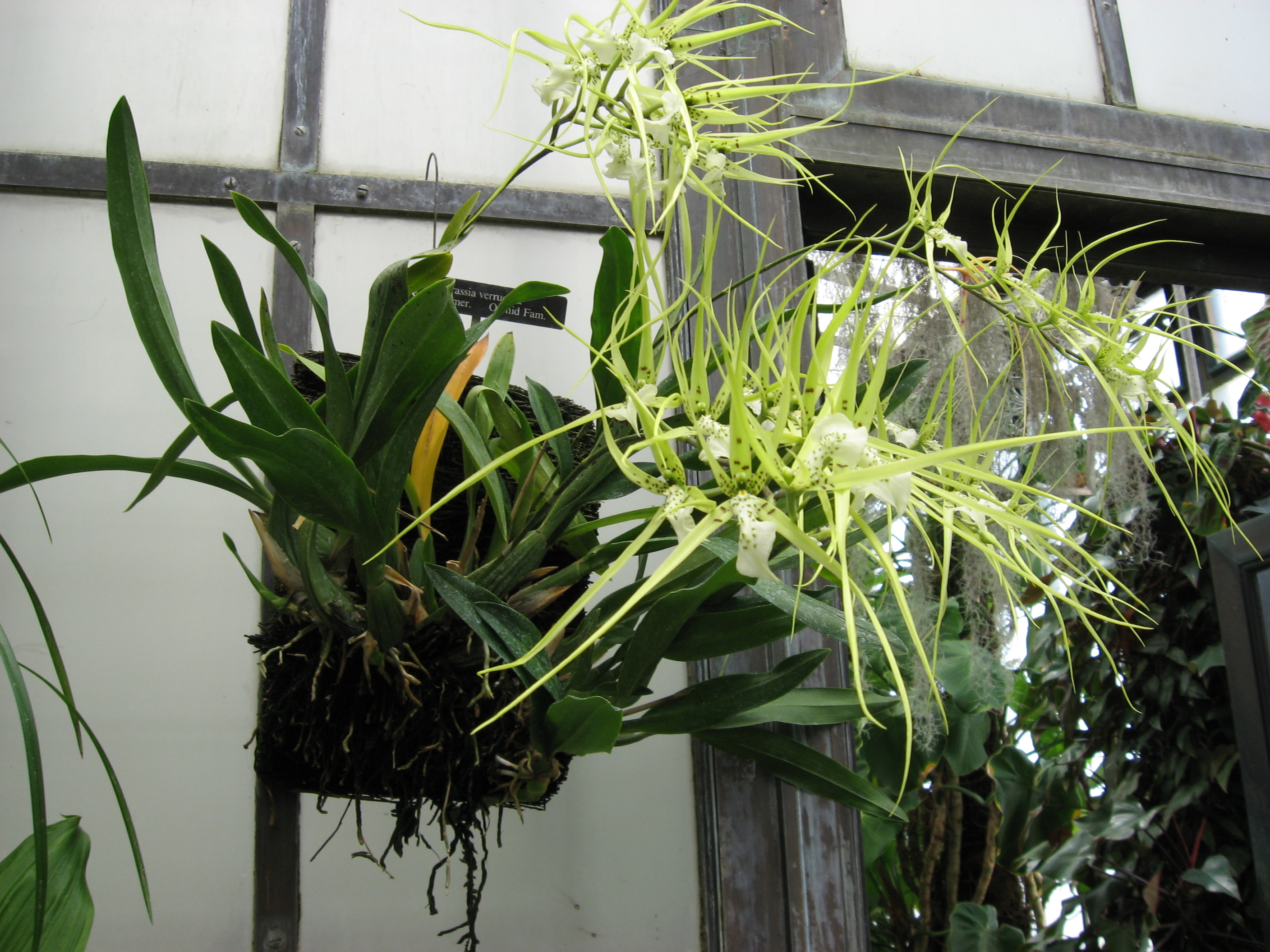 A picture of Brassia verrucosa.